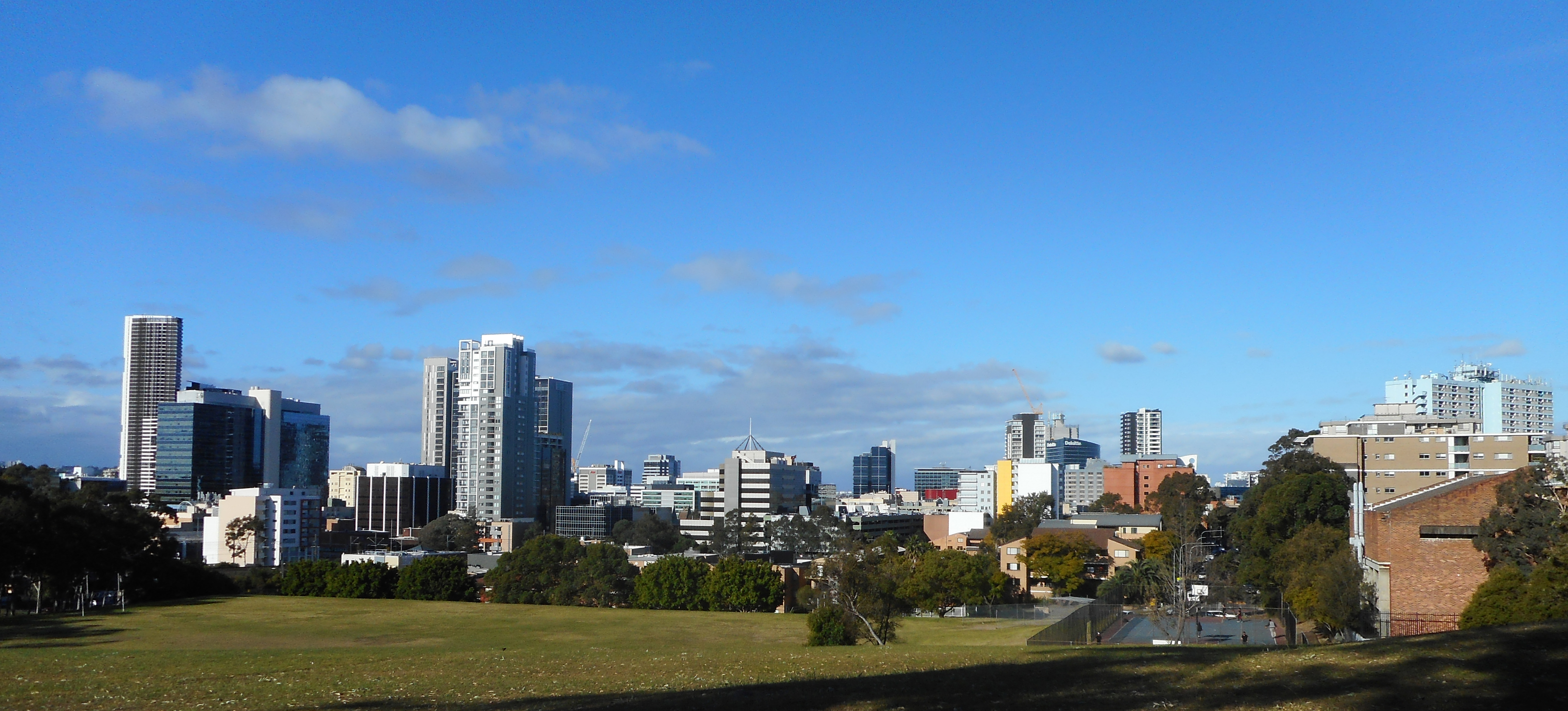 View of the Parramatta skyline from the west in August 2017.